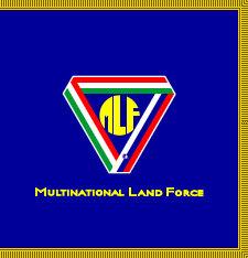 Flag of the Multinational Land Force, also known as the Italian–Hungarian–Slovenian Battlegroup of the European Union. It consists of the flags of Italy, Hungary and Slovenia made intro a triangle pointed downwards, the words 'Multinational Land Force' in yellow under it and the rounded yellow letters 'MLF' inside the triangle, and a simple meader-like golden-dark khaki border on each side except the left.